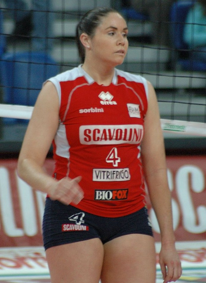 American volleyball player Lindsey Berg